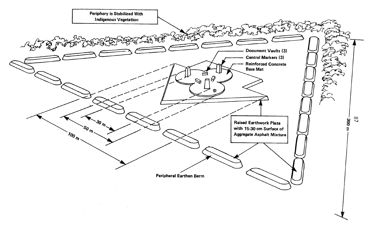 proposed long-term marker for nuclear waste deposit.